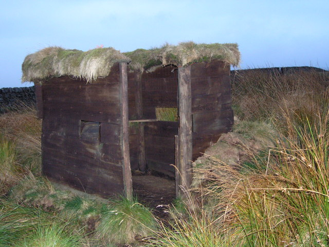 Wooden shooting butt overlooking a tarn A shooting butt/hide used for duck shooting.